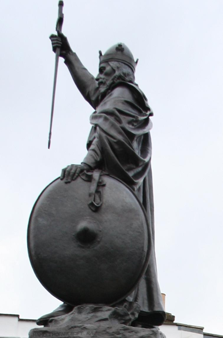 King Alfred's Statue, Winchester